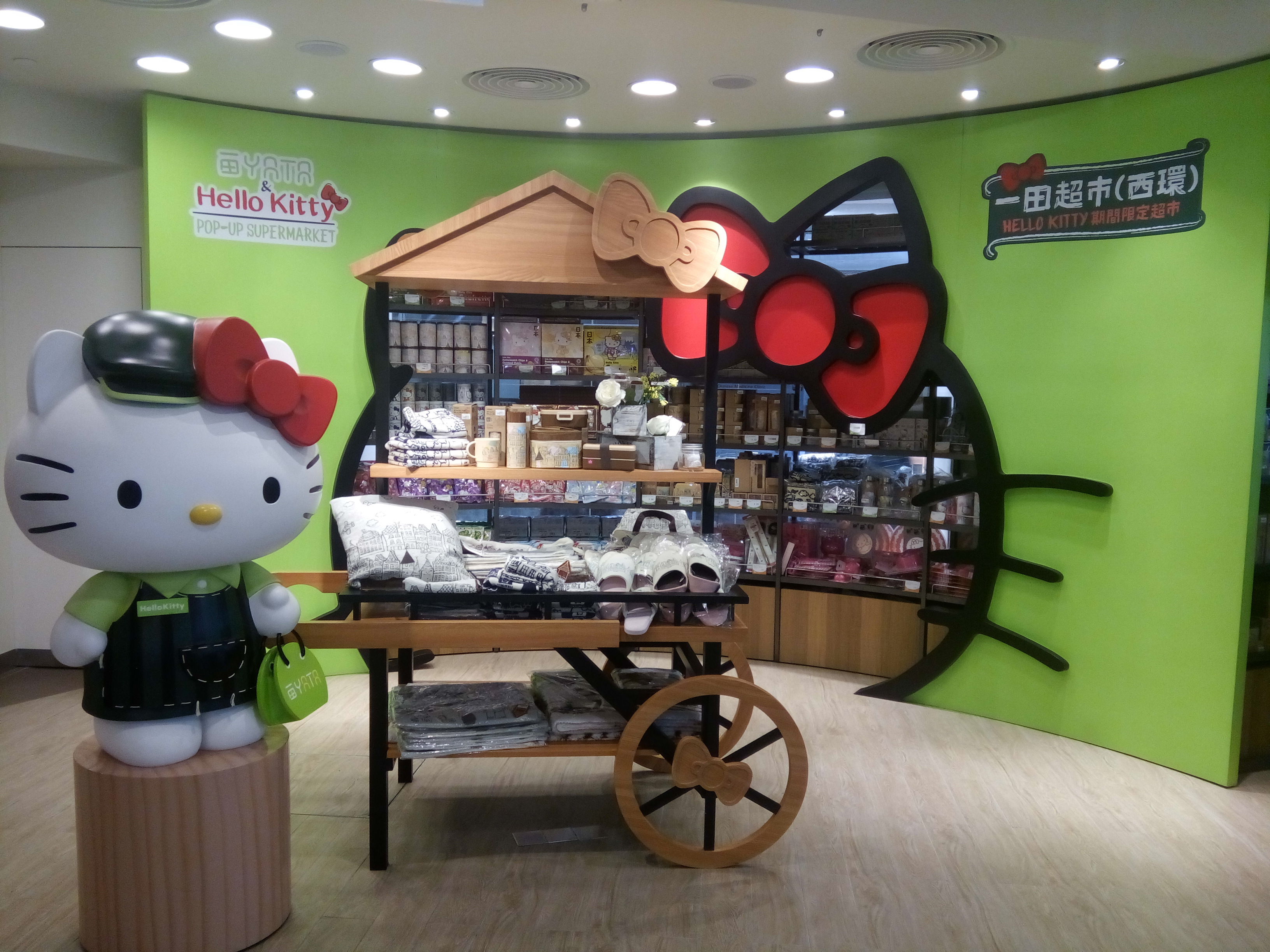 HK SYP Sai Ying Pun 香港商業中心 Hong Kong Plaza 日本一田百貨店 YATA department Store in March 2017 n Hello Kitty